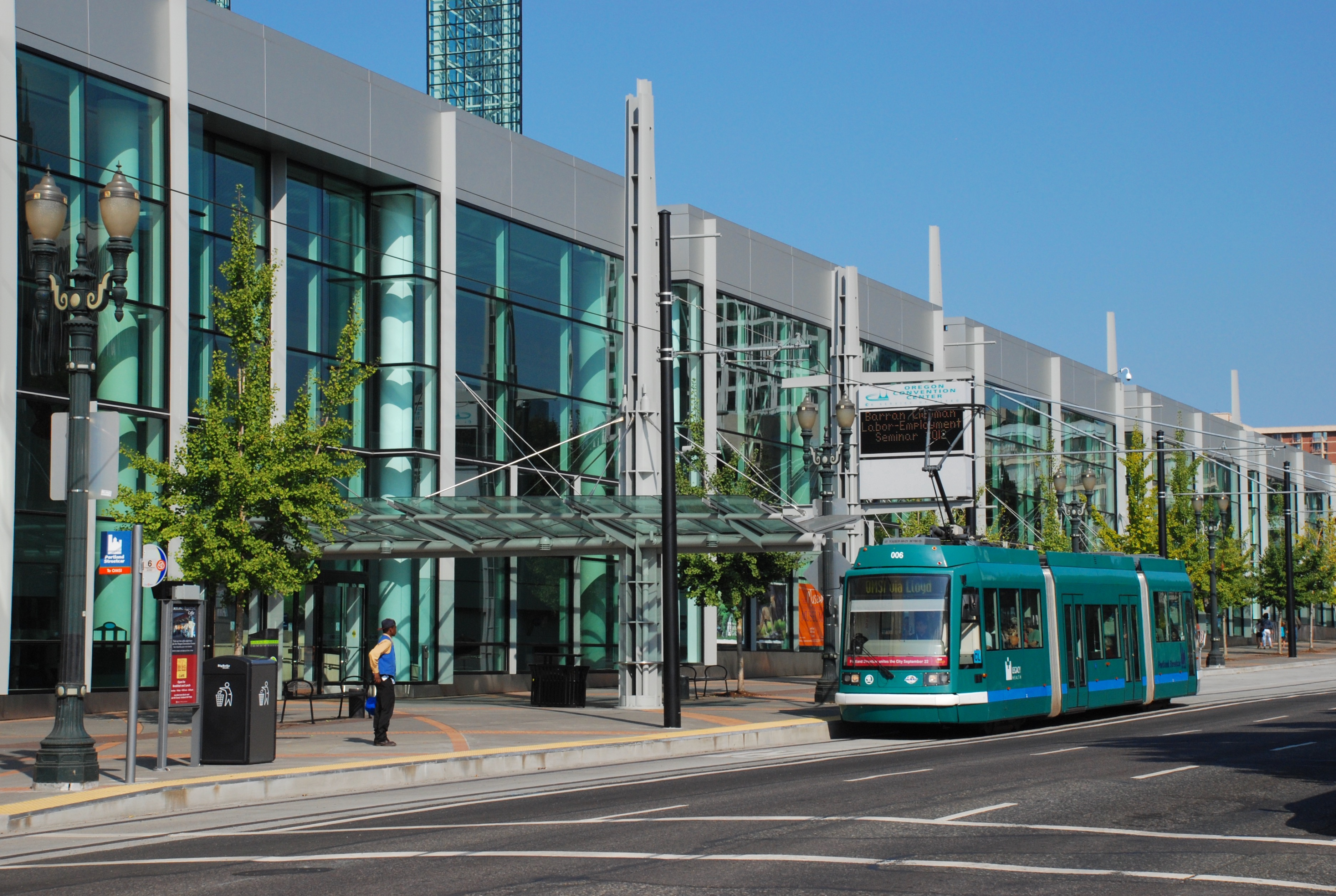 Portland Streetcar car 006 pulling into MLK & Hoyt stop (on Martin Luther King Jr. Blvd.), next to the Oregon Convention Center, on September 23, 2012 – the second day of service on the CL Line. In 2015, the CL Line was transformed into the Loop Service, and the MLK & Hoyt stop is on the A-Loop.